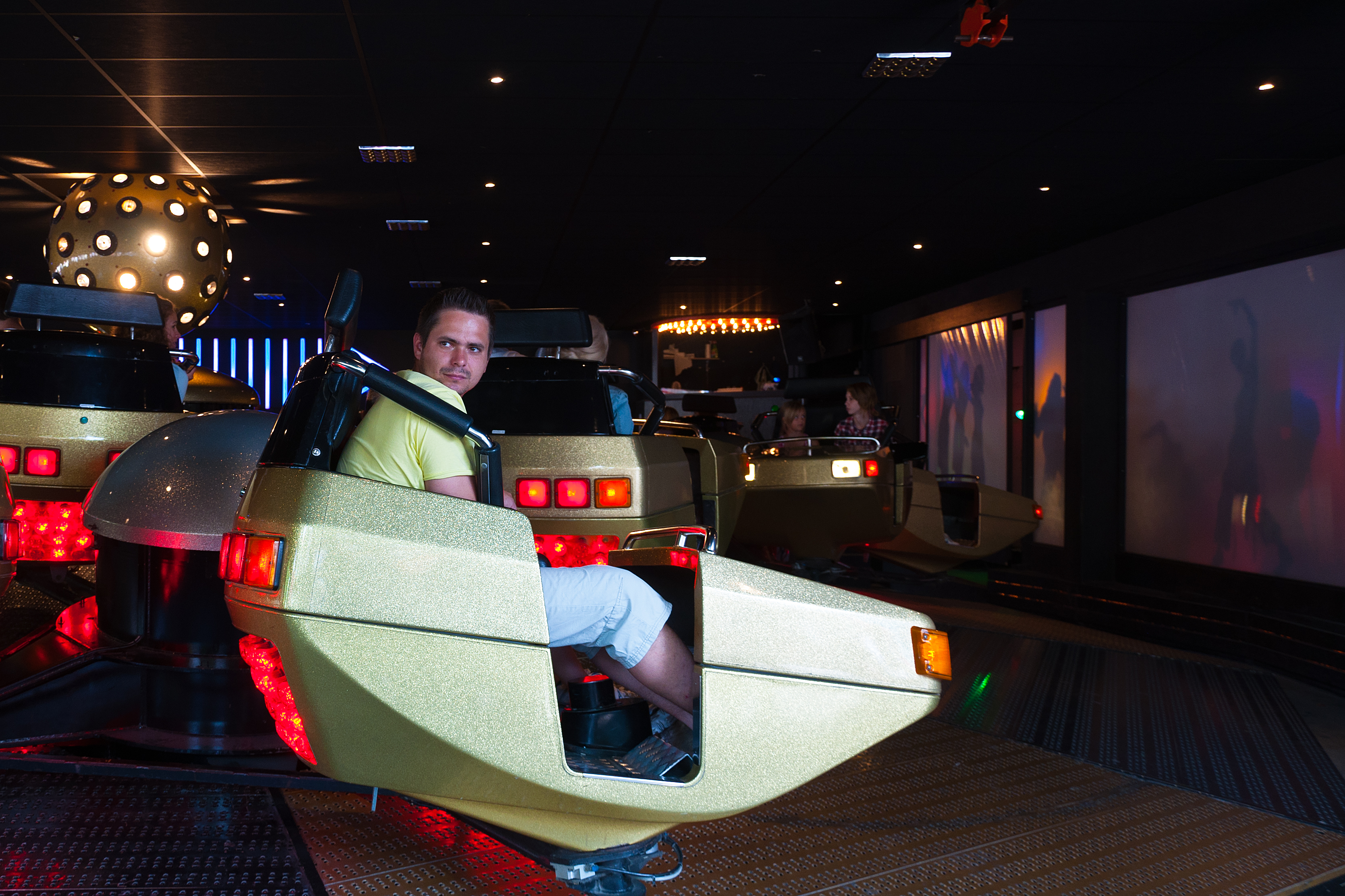 Pop-expressen, Gröna Lund, Stockholm, Sweden.